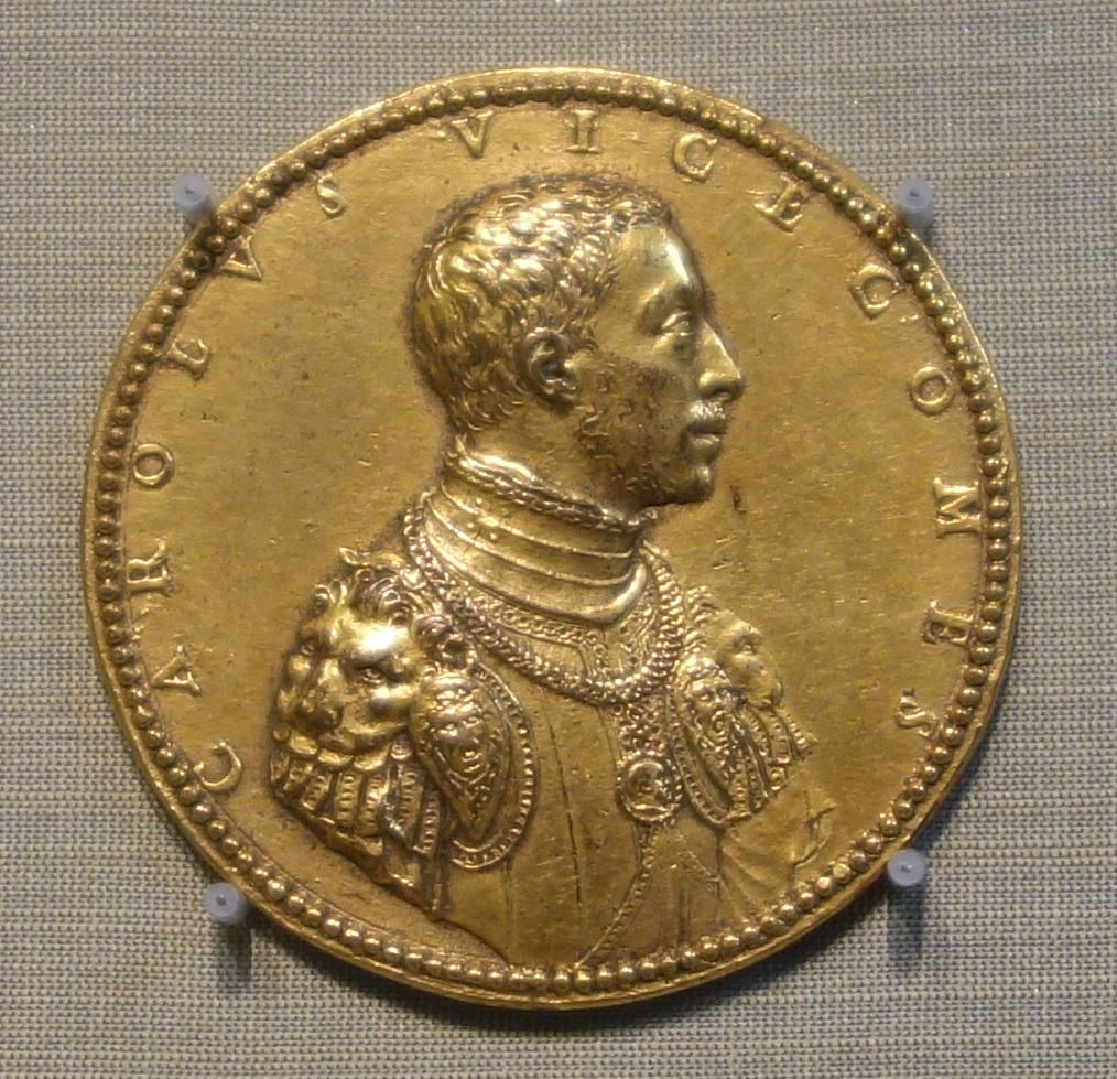 Medal of Carlo Visconti, attributed to Leone Leoni, Milan, Italy, mid 16th centry, gilded bronze - Museum of Fine Arts, Boston, Massachusetts, USA. This artwork is in the public domain because the artist died more than 70 years ago.